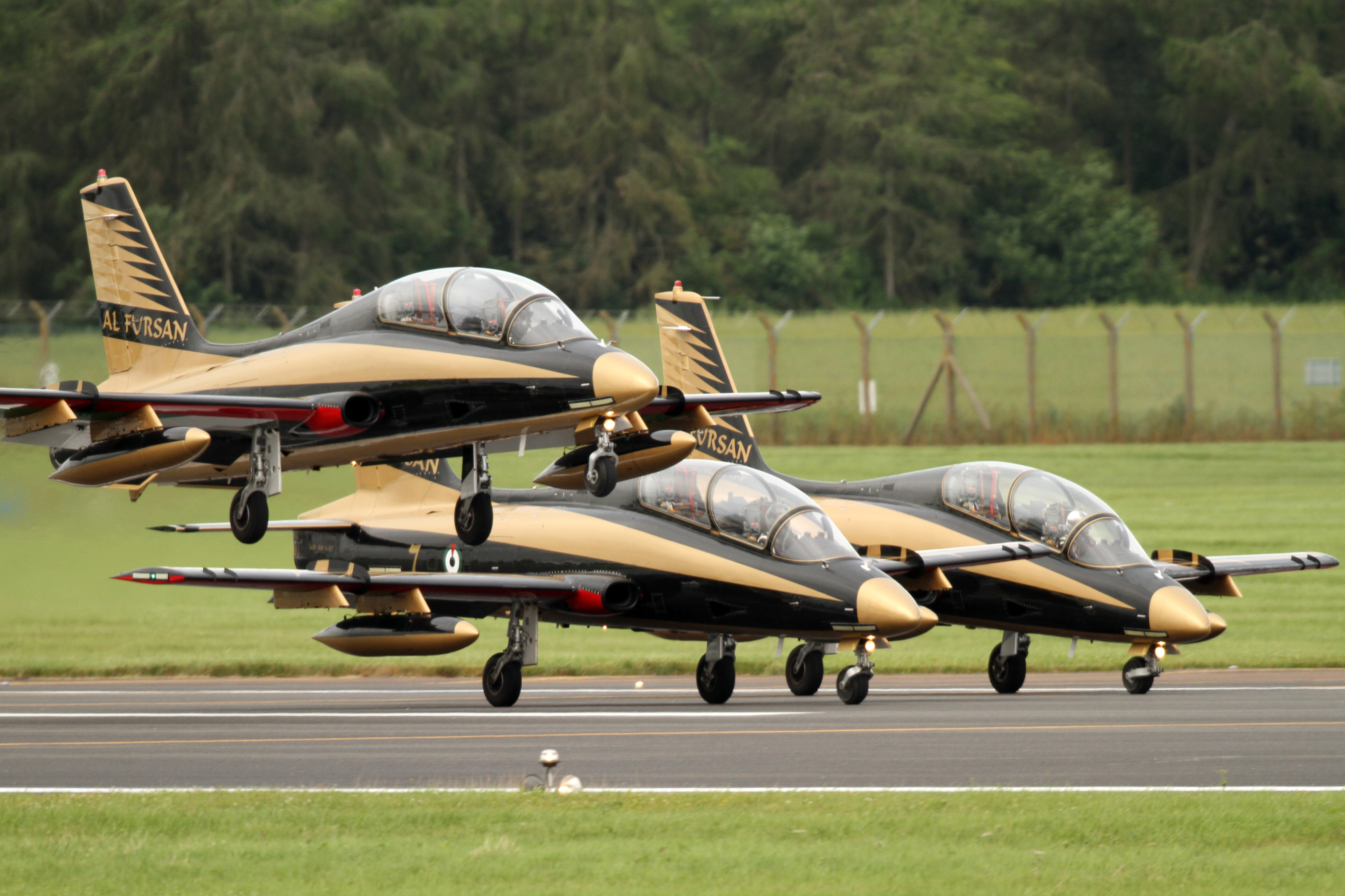 RIAT 2012